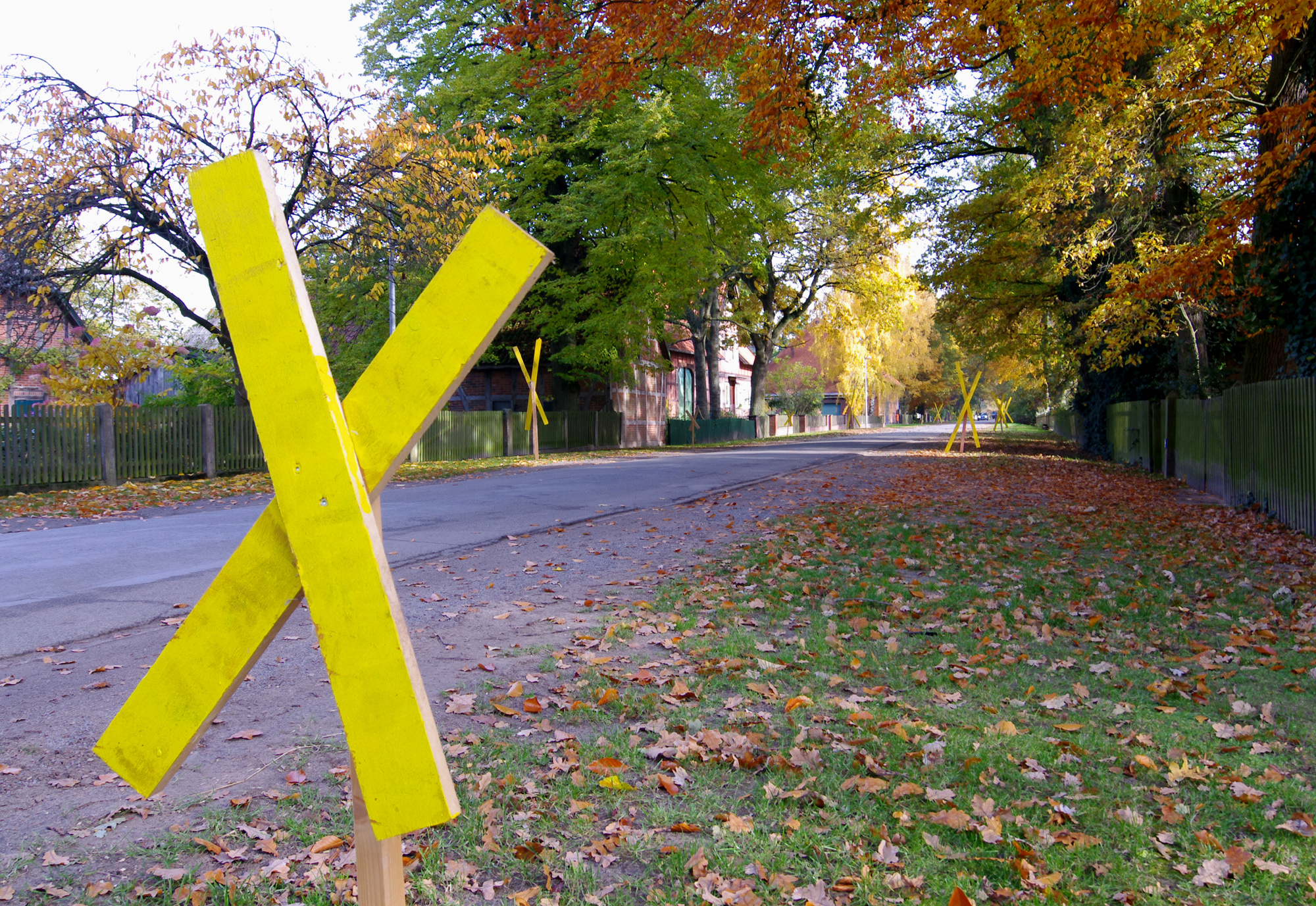 The yellow "X" is the omnipresent symbol in the Wendland (district Lüchow-Dannenberg) for over 30 years of popular resistance against the German nuclear policy, the annual "Castor" transports to interim storage facility for German highly radioactive nuclear waste and the plans for a repository for highly radioactive nuclear waste in the salt dome Gorleben-Rambow. The picture was taken in Breese/Marsch in the district Lüchow-Dannenberg.